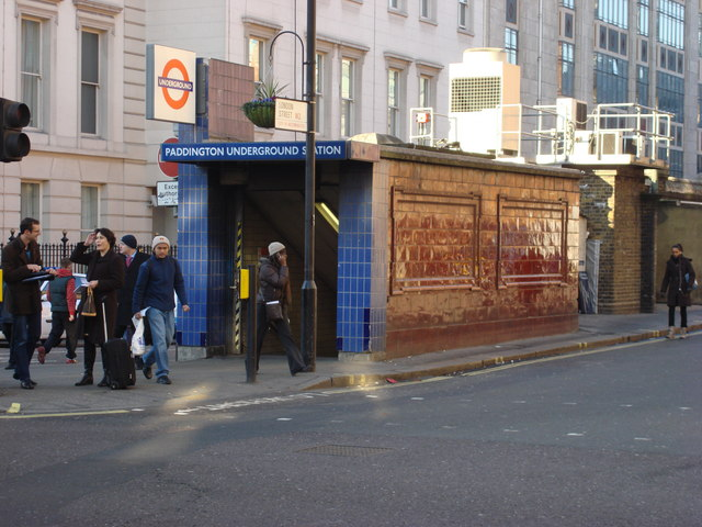 Paddington Underground station, Praed St Bakerloo line entrance